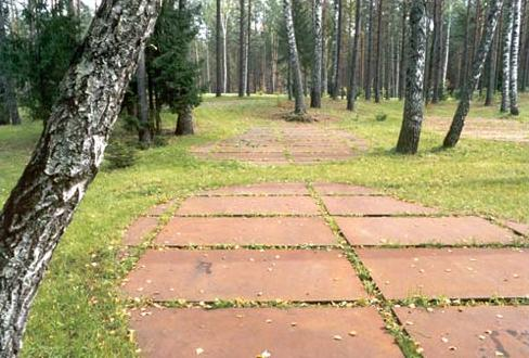 Place of mass victims of the Katyn massacre of 1940